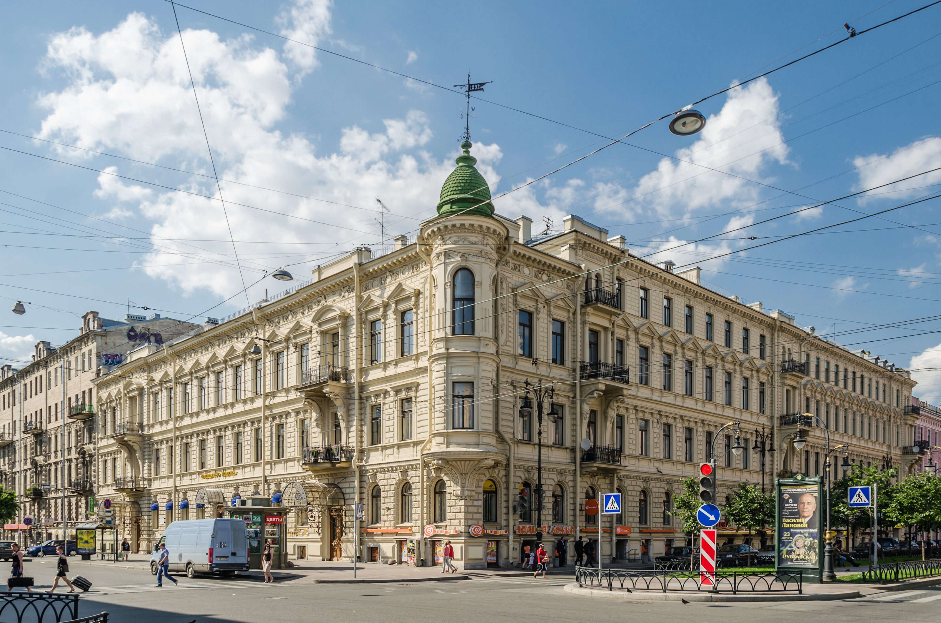 38, Tchaikovsky Street, Saint Petersburg